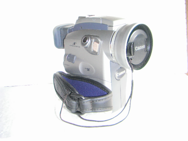 Velocicaptor A photograph of a CANON DV 012 CAMCORDER